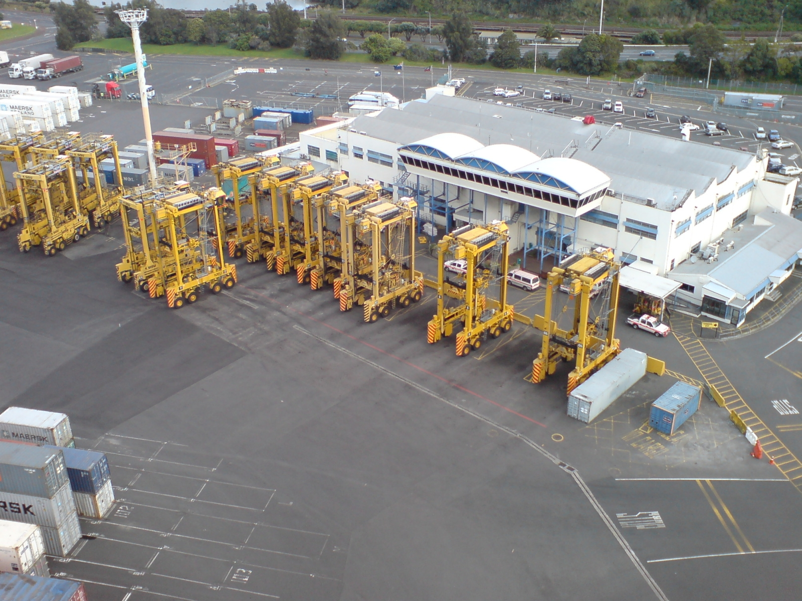 Parked straddle carriers of Ports of Auckland in Auckland City, New Zealand. Seen from one of the large container cranes.